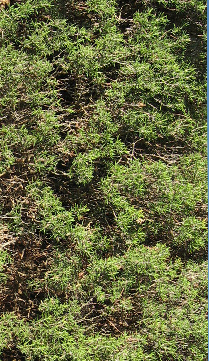 Greenery to be used with other images explain Layer masks